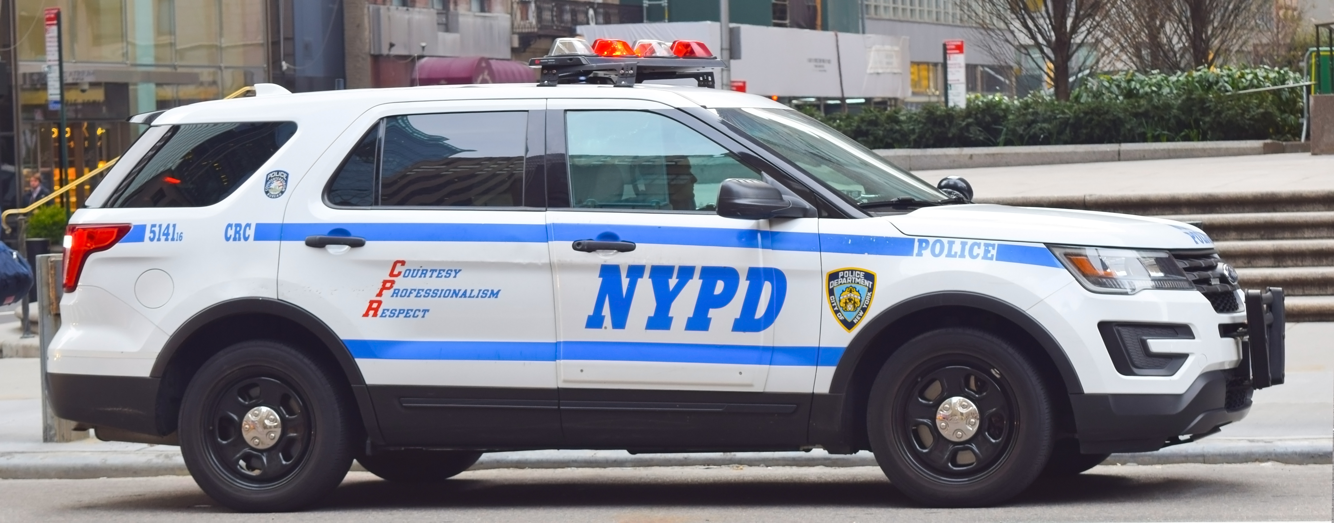 ford utility